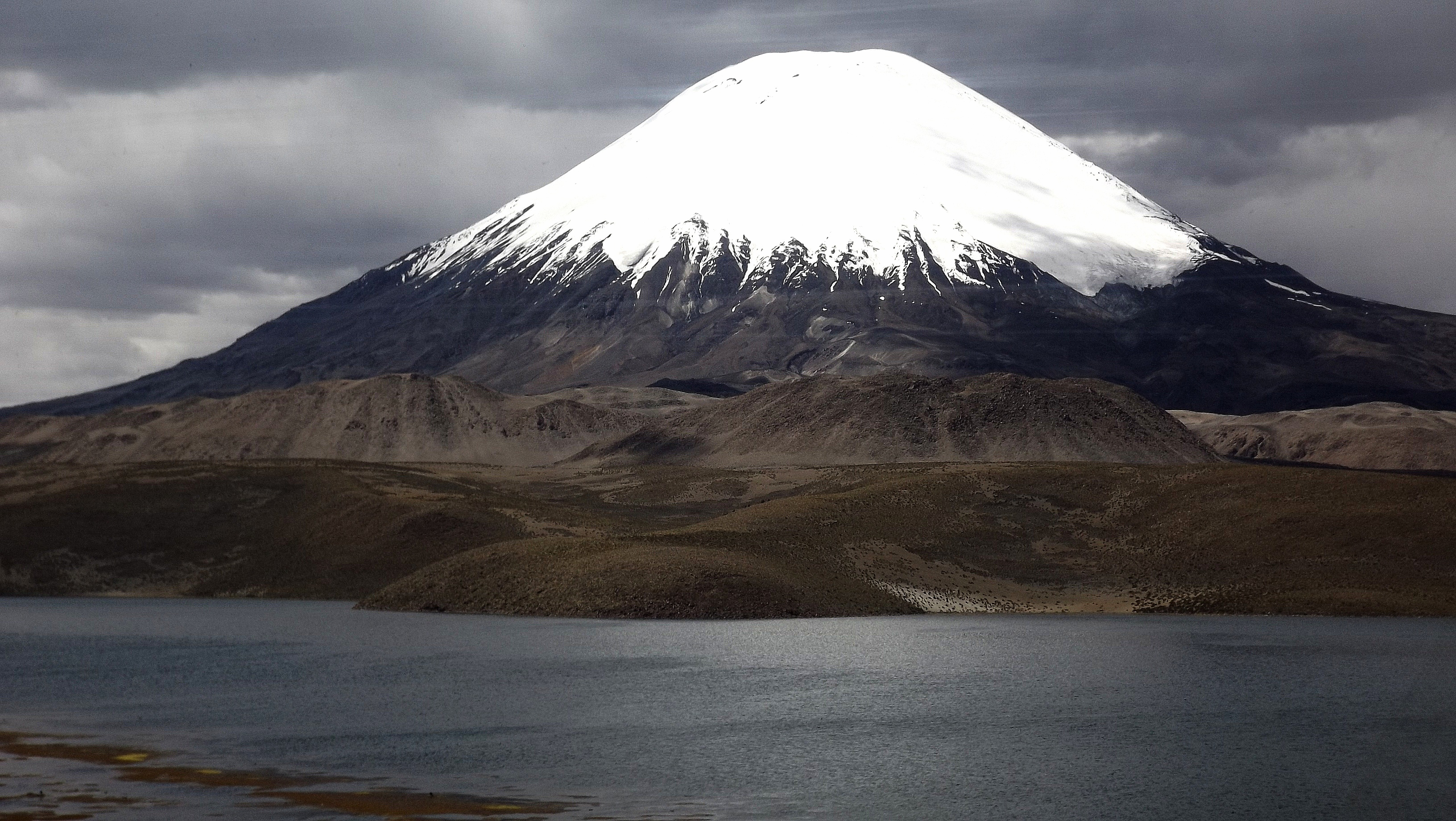 Lago Chungará, 4500 msnm. Al fondo Volcán Parinacota, Estratovolcán. Chile.